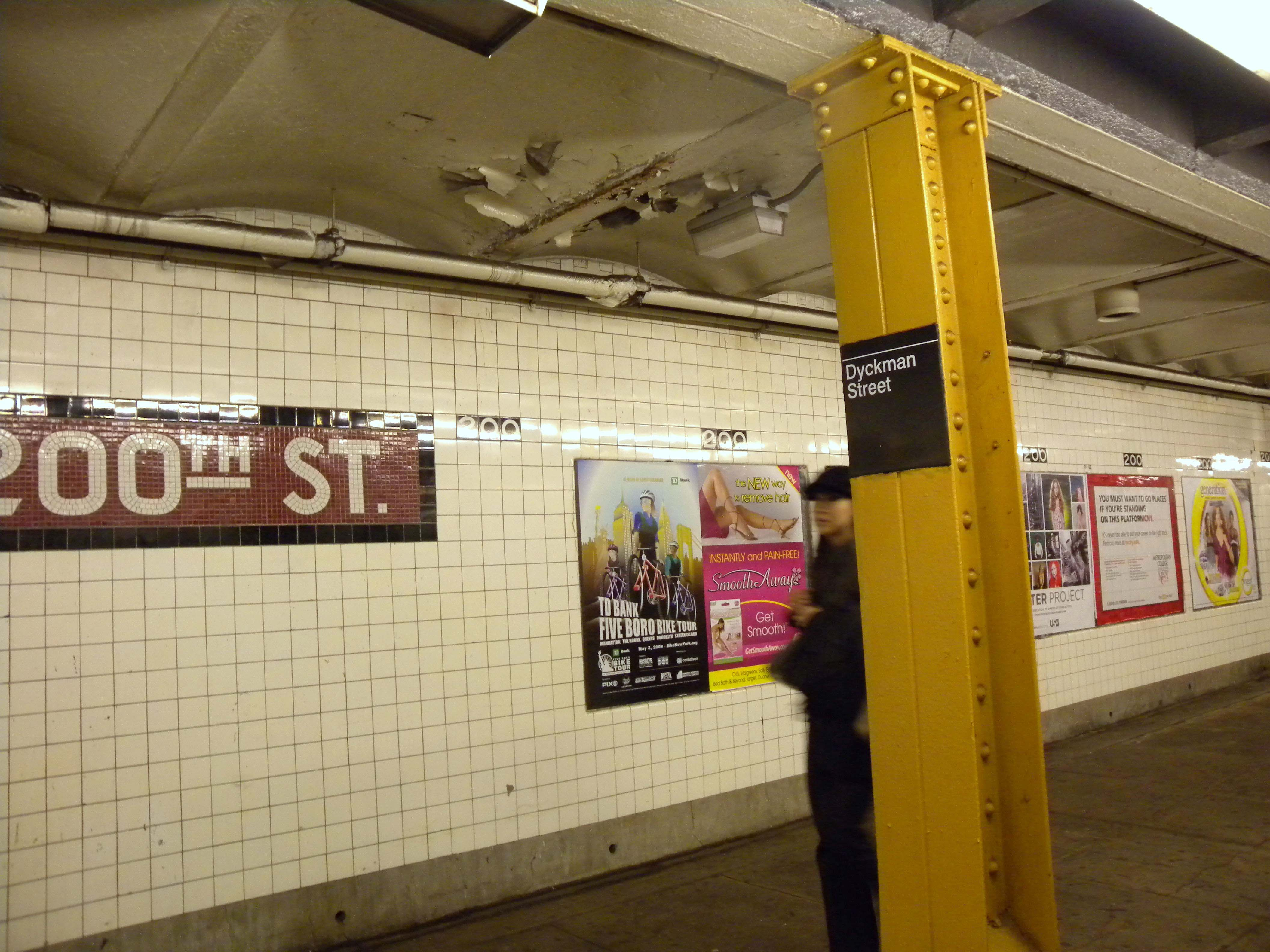 Looking south out of A train at northbound platform of Dyckman/200th Street station. See also File:Dyckmanstindjeh.JPG